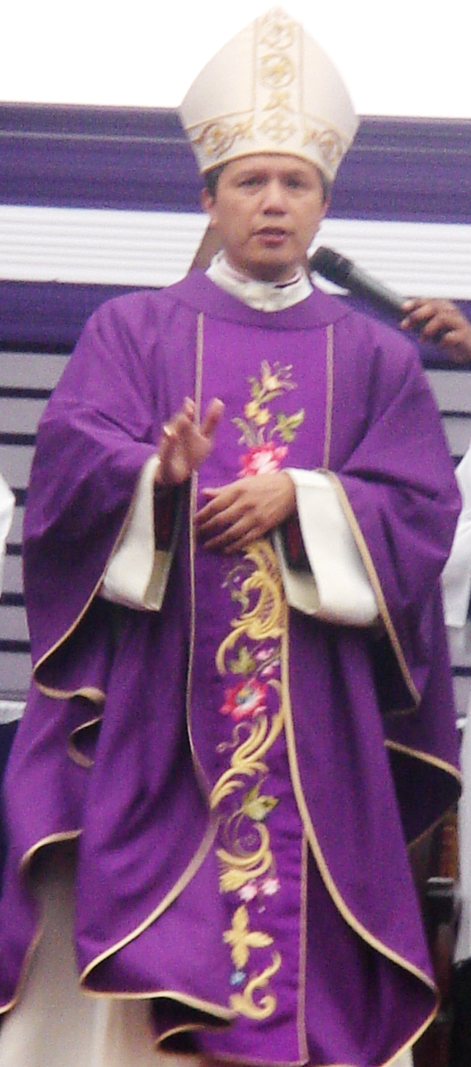 Bishop Mons. Raúl Chau, during mass before Lord of Miracles Procession. Lima, 2009.